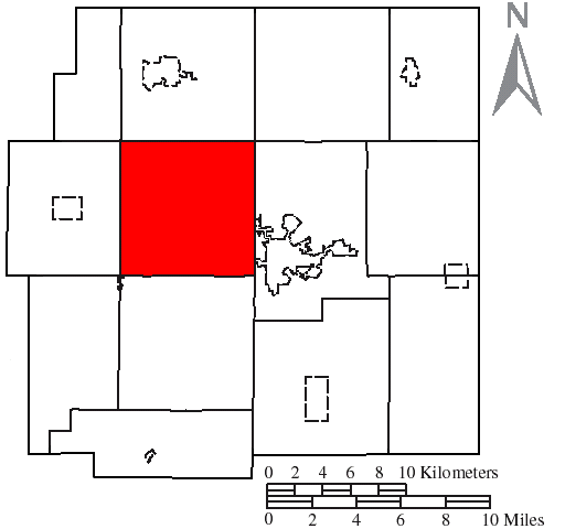 Made by the US Census and modified by myself